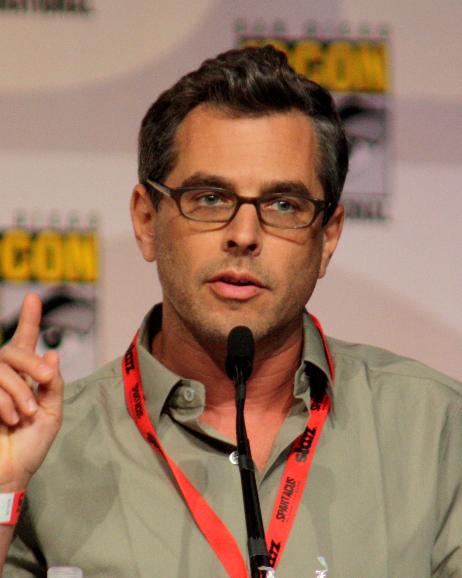 Richard Appel at the 2009 Comic Con in San Diego.